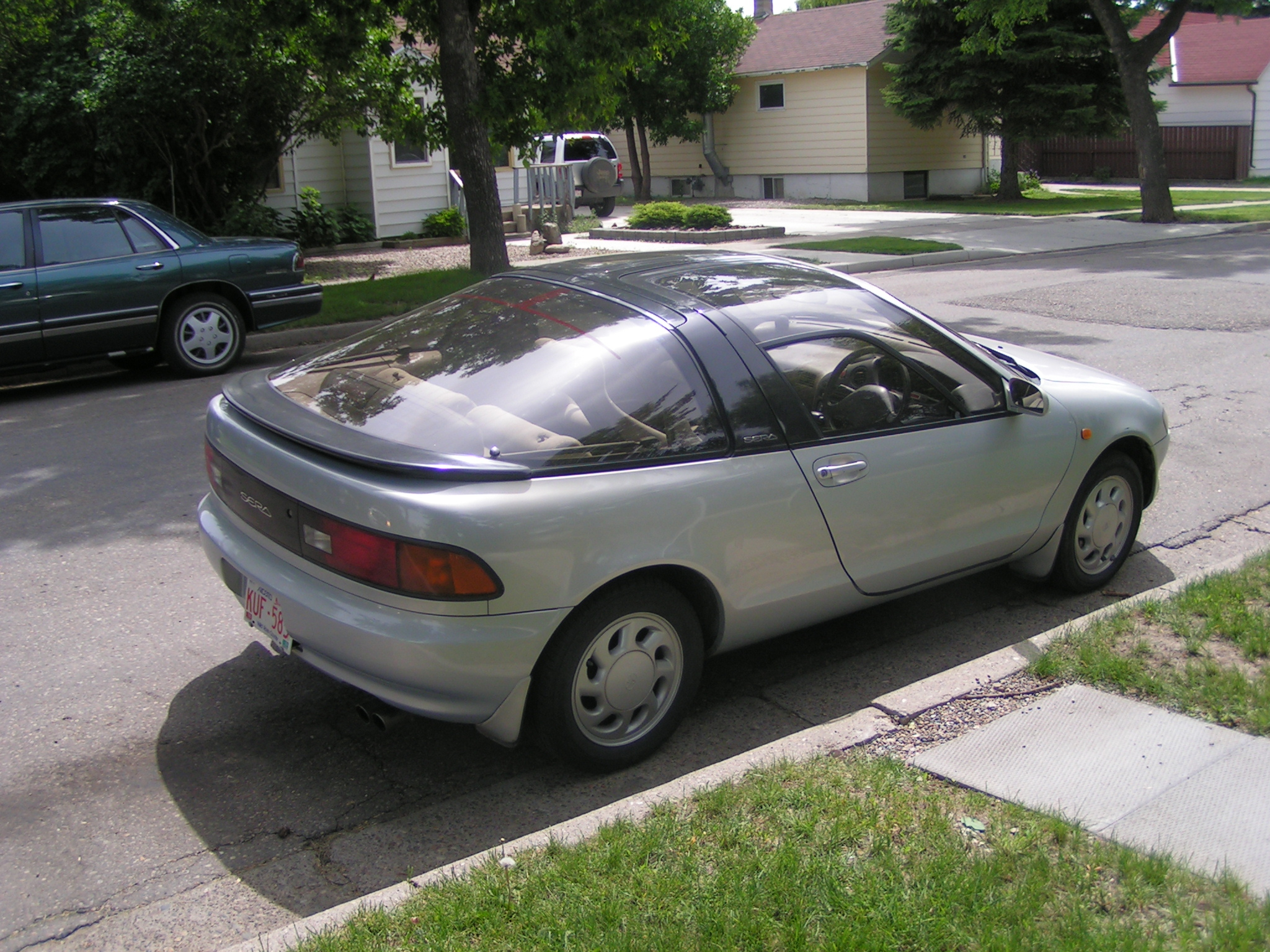 Toyota Sera - gullwing doors and a 1.5L four cylinder. Imported from Japan.